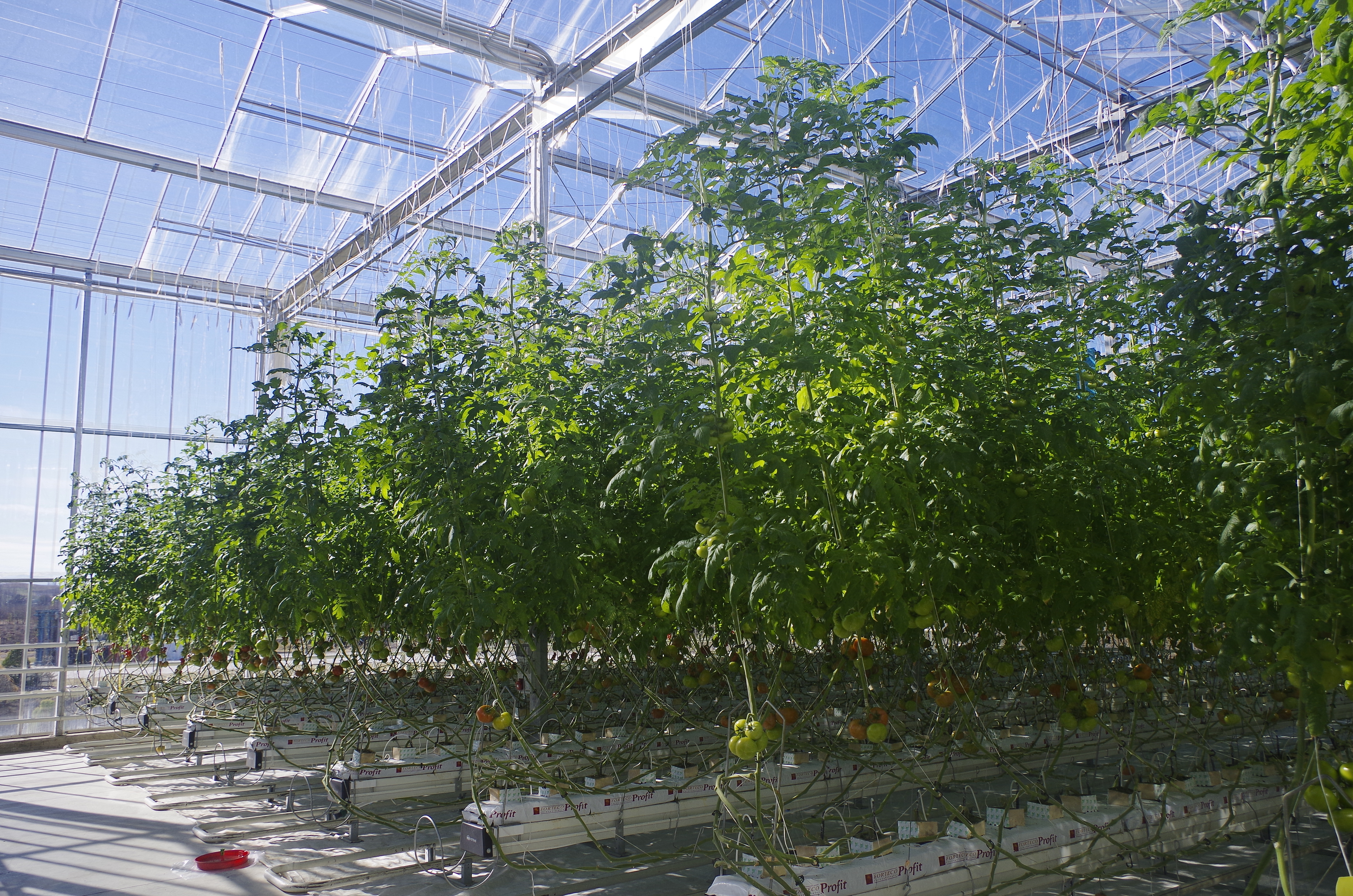 Horticulture and gardening